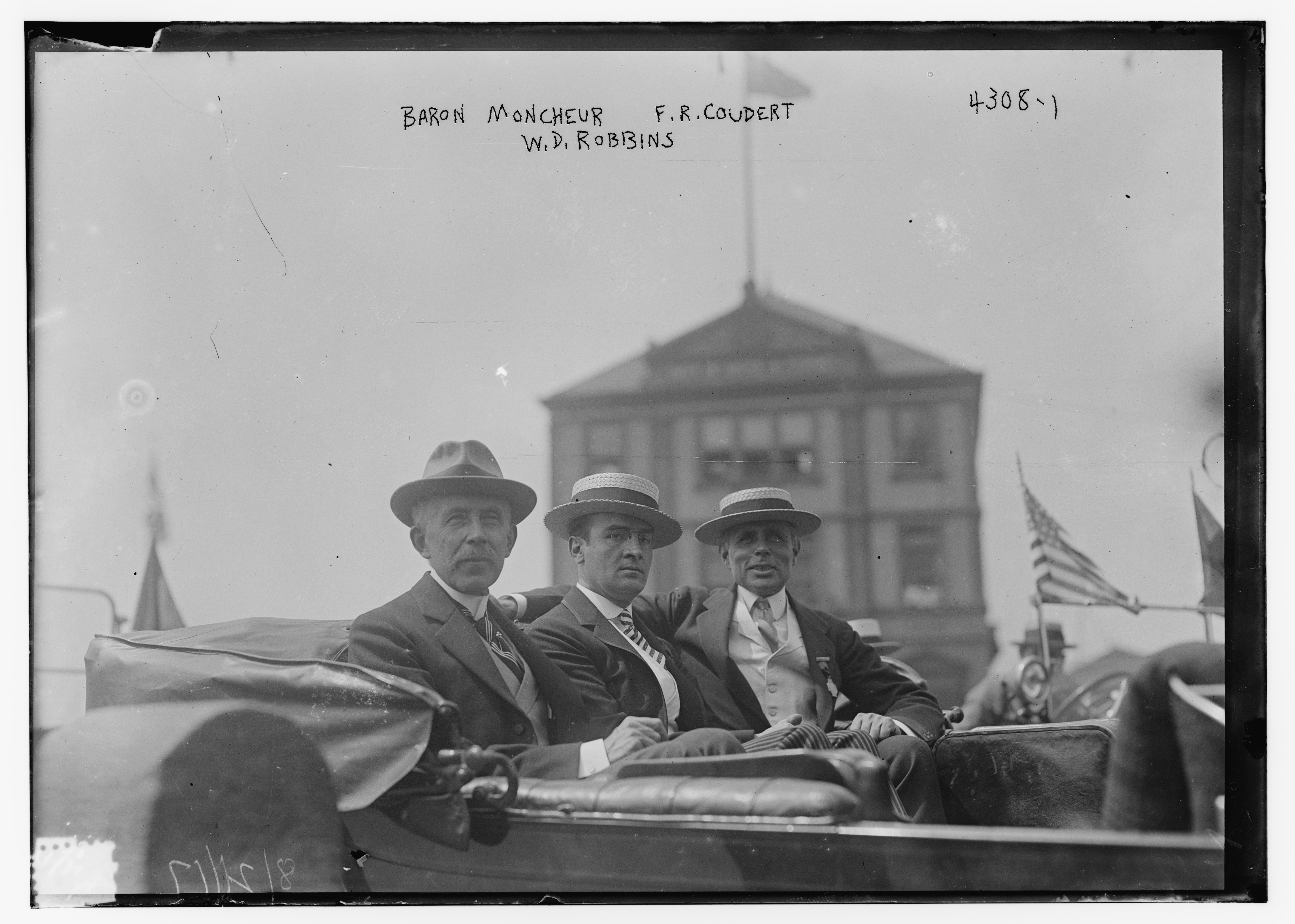 Title: Baron Moncheur, F.R. Coudert, W.D. Robbins Abstract/medium: 1 negative : glass ; 5 x 7 in. or smaller.